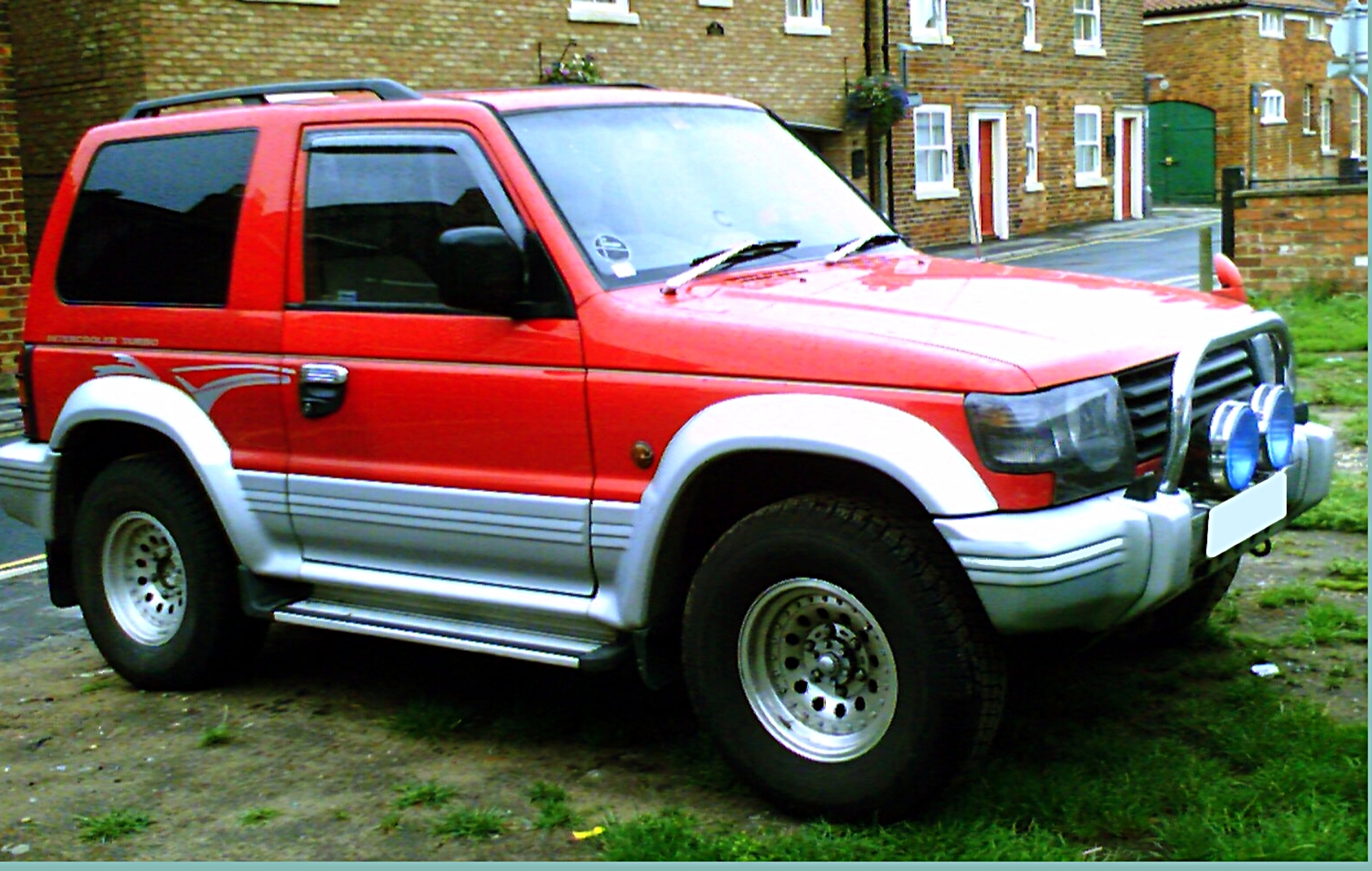 Mitsubishi Shogun Intercooler Turbo.